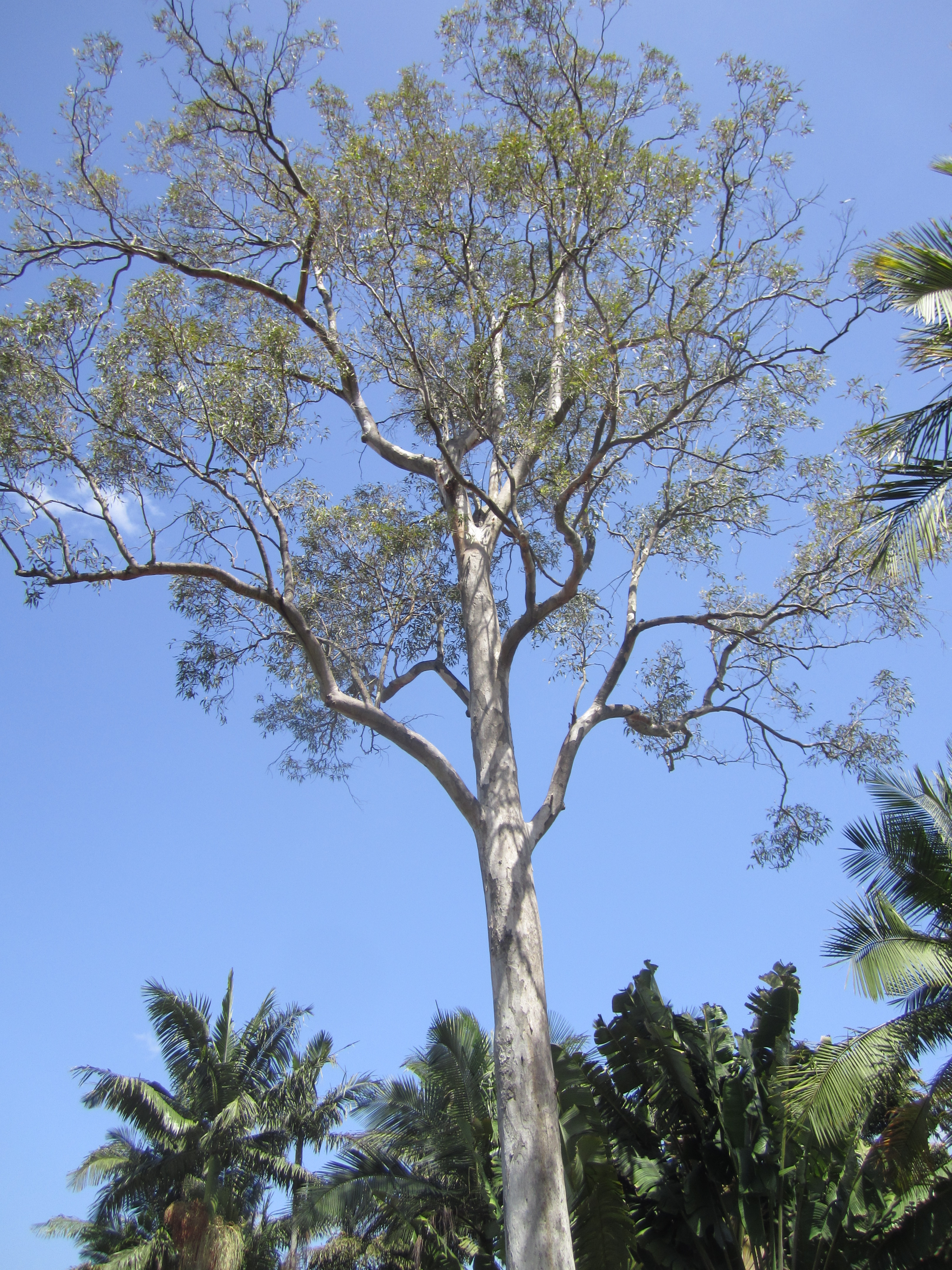 The making of this file was supported by Wikimedia Australia. To see other files made with WM-AU support, please see the category Supported by Wikimedia Australia. Eucalyptus major tree in the Mount Coot-tha Botanical Gardens. Photo taken in October (mid spring) of 2012.